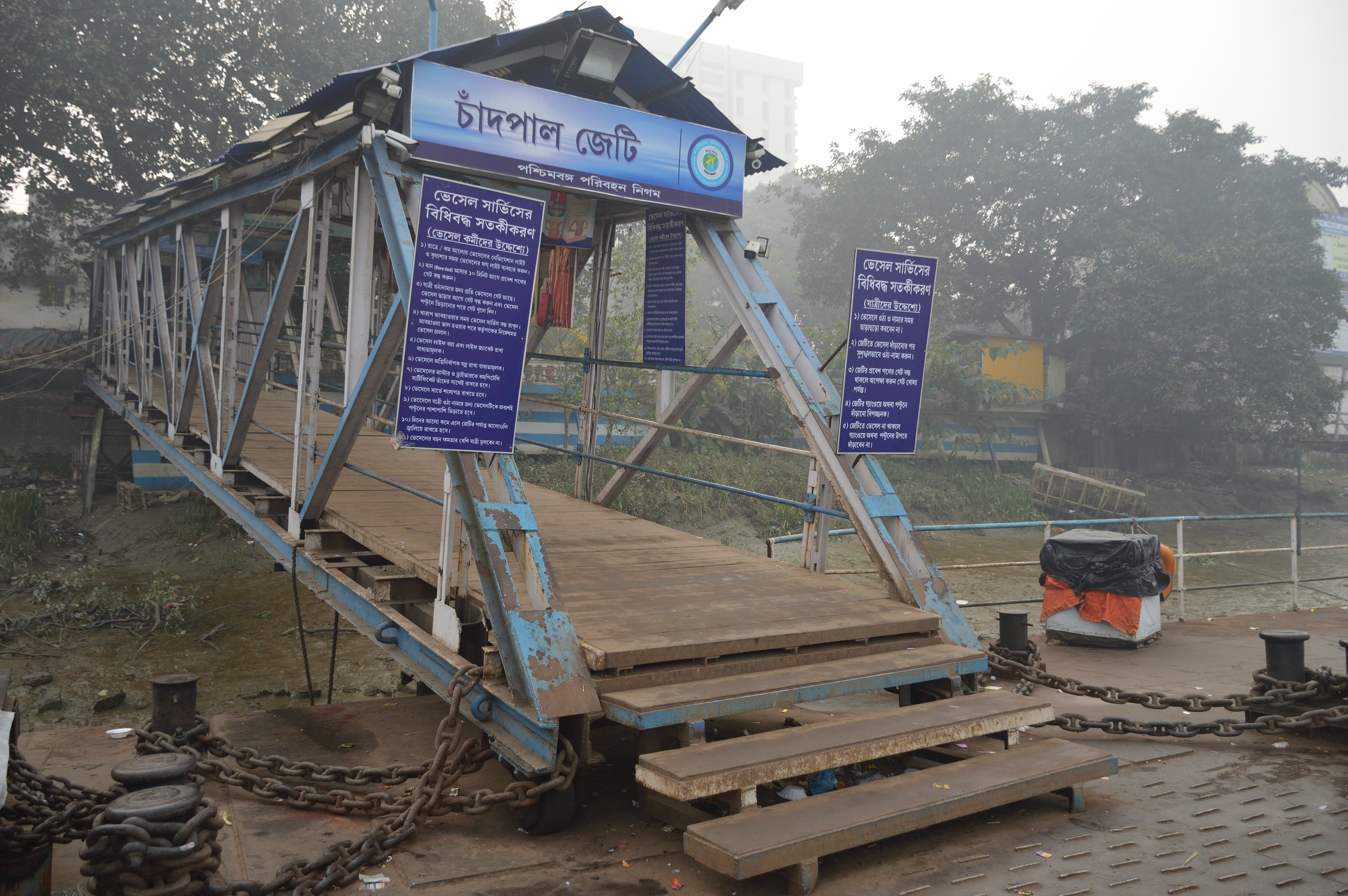 This photograph was taken during the Makar Sankranti observance in Kolkata.